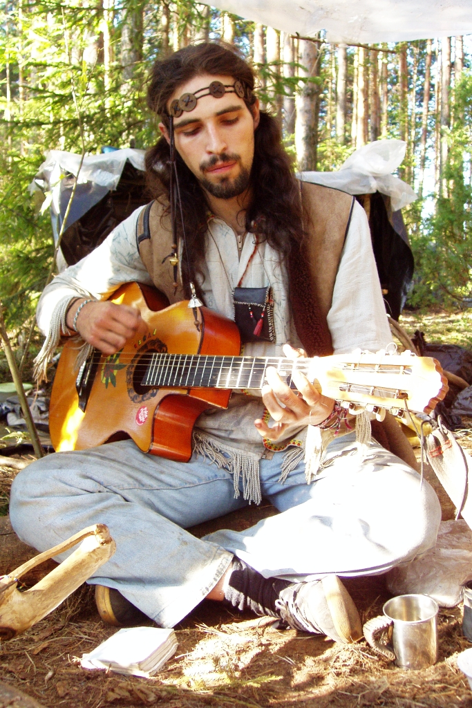 Russian Rainbow Gathering. Nezhitino, August 2005